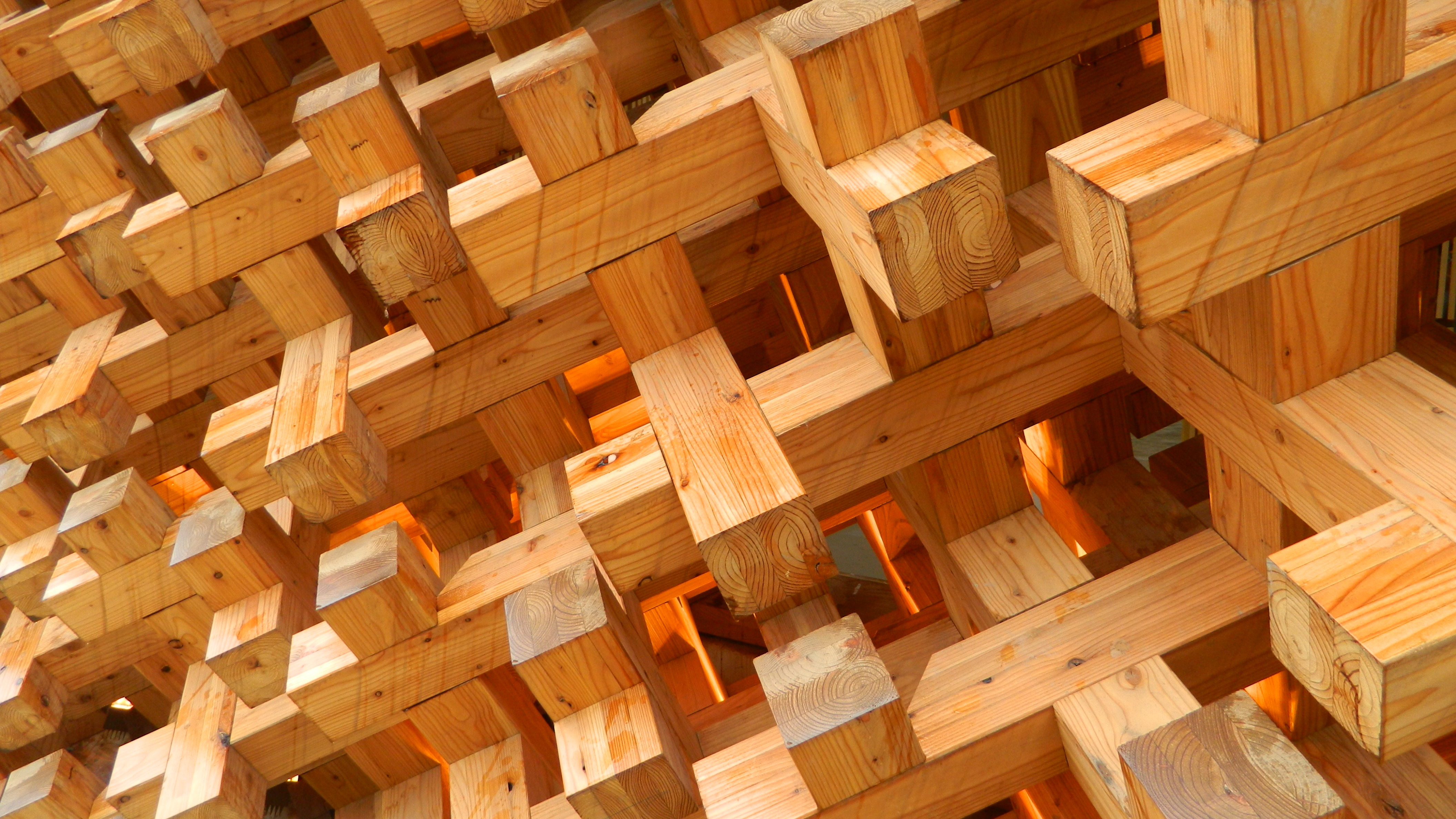 External texture of the Japan pavilion at Expo 2015